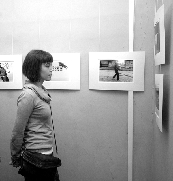 Секция творческая фотография. Студенческая выставка